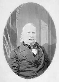 Oval portrait of Rev. James A. Ryder, S.J., president of the College of the Holy Cross in Massachusetts